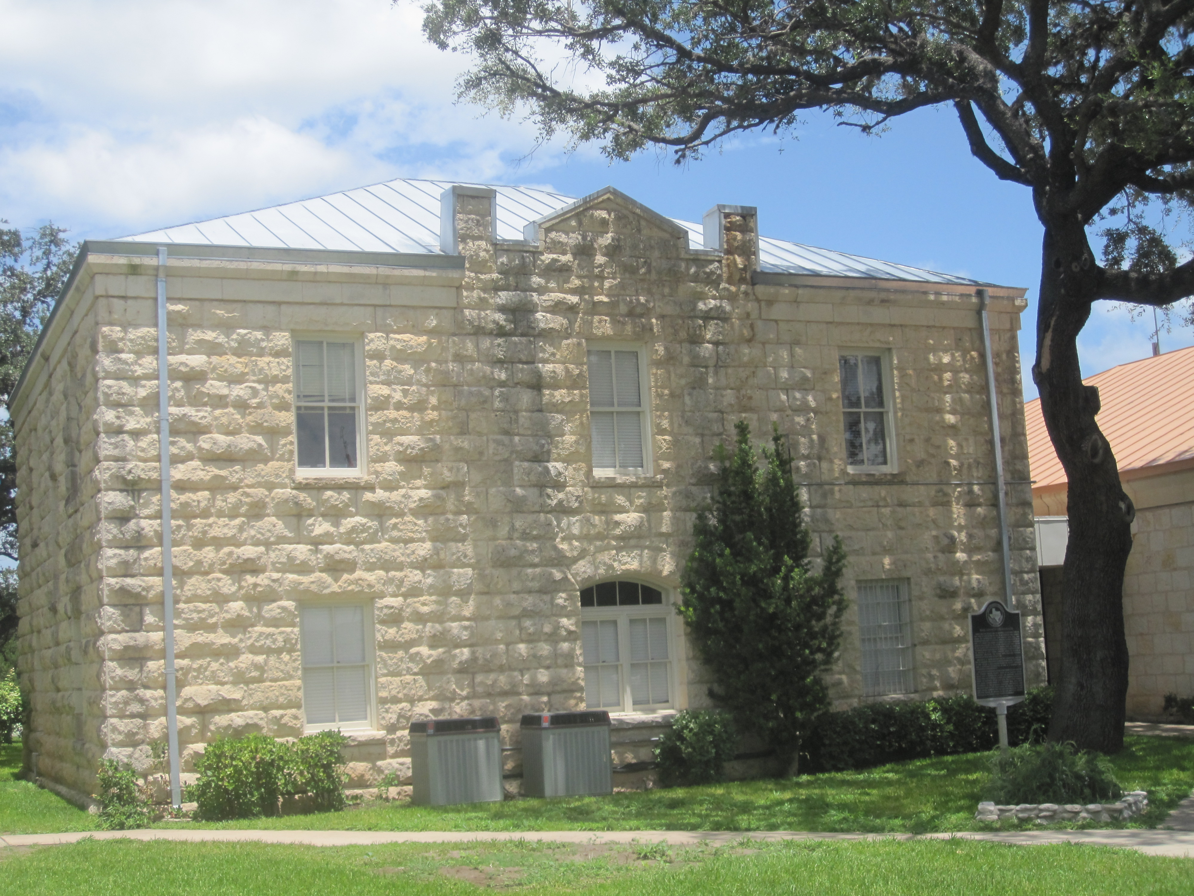 Real County courthouse in Leakey I took photo with Canon camera in Leakey, TX.